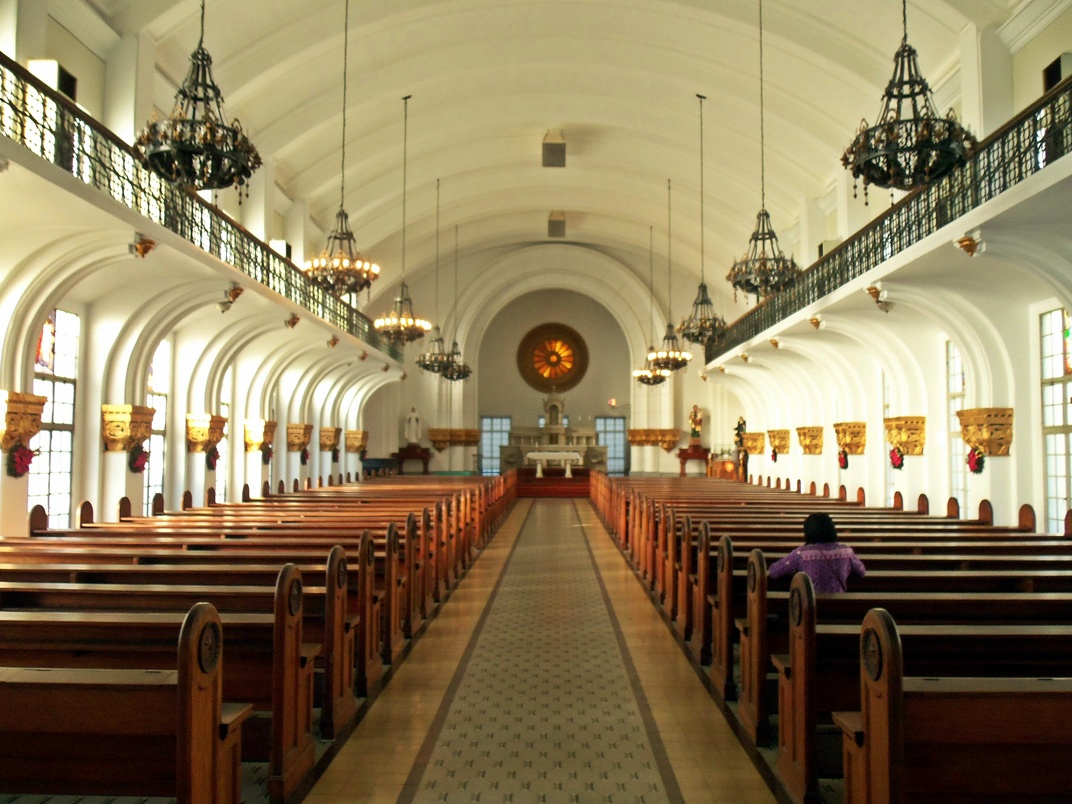 The Chapel of the Most Blessed Sacrament is the main and largest chapel of De La Salle University in Manila, Philippines. Built in the 1930s, the chapel was designed in art deco style by the commissioned architect, Tomas Mapua.